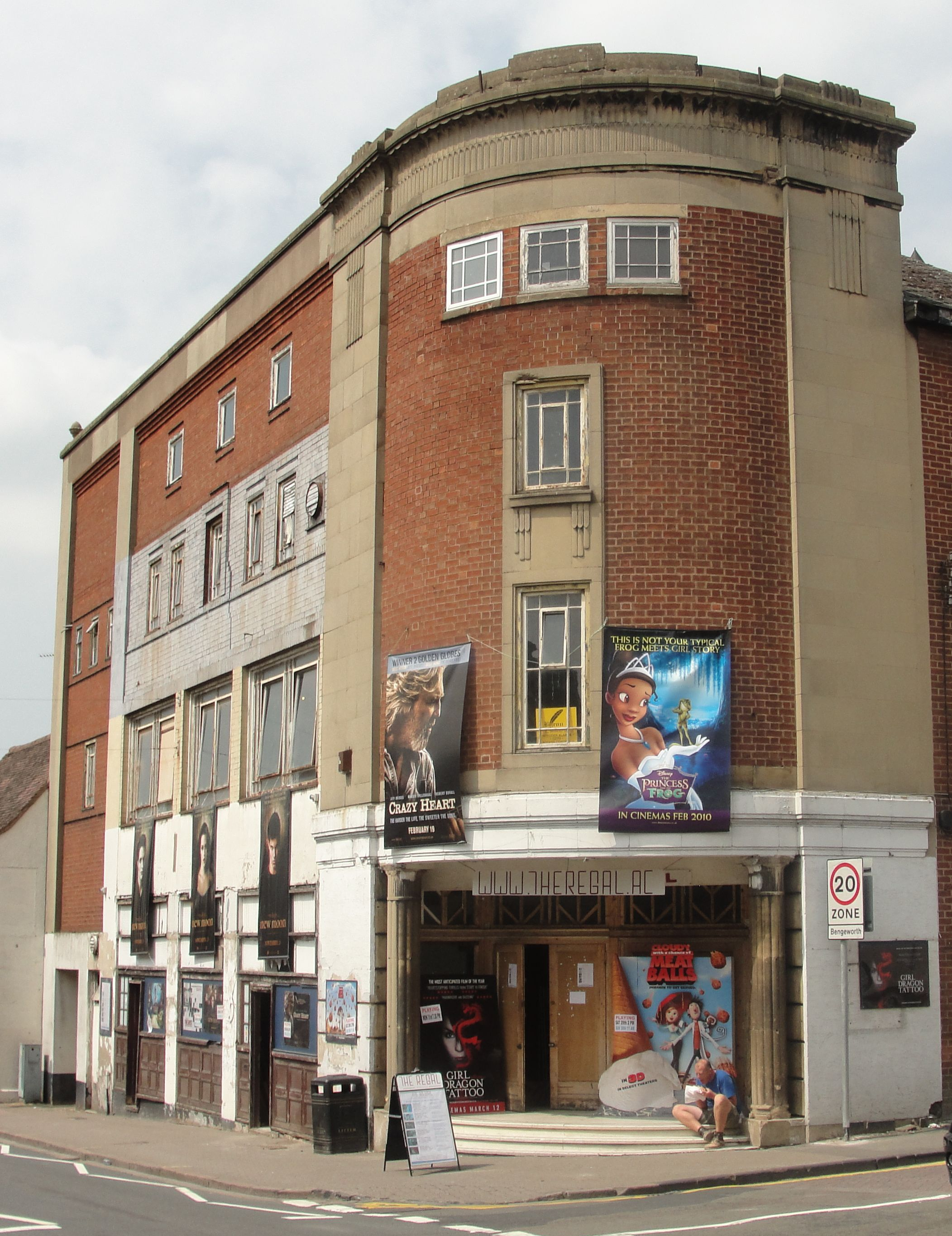 Regal again?